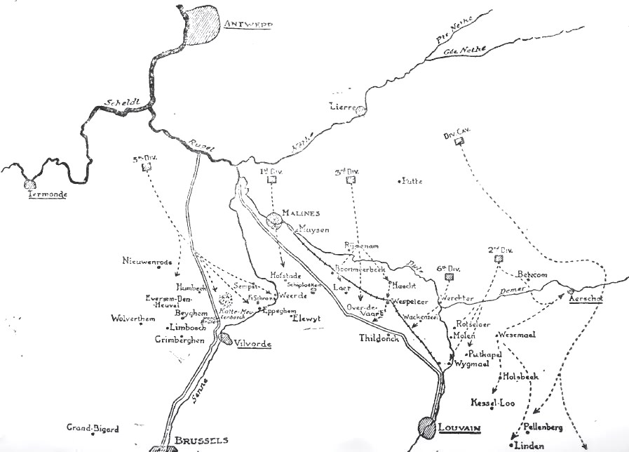 Second sortie from Antwerp, 1914